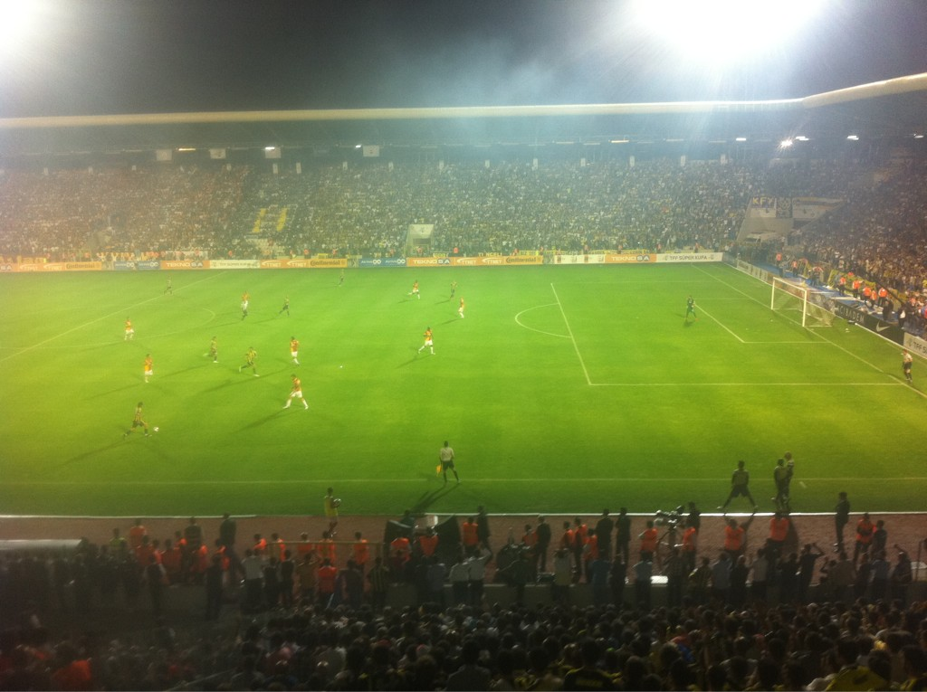 Erzurum'daki Süper kupa maçı